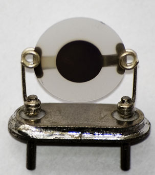 Polish quartz crystal resonator from a crystal oscillator with case removed, showing construction. It consists of a round transparent plate of quartz, with metal foil electrodes plated onto both surfaces attached to terminals on the bottom. When connected to an electronic oscillator circuit, the quartz plate vibrates mechanically millions of times per second, creating an oscillating electrical signal in the circuit.